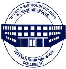 Logo of Yerevan regional state college N1